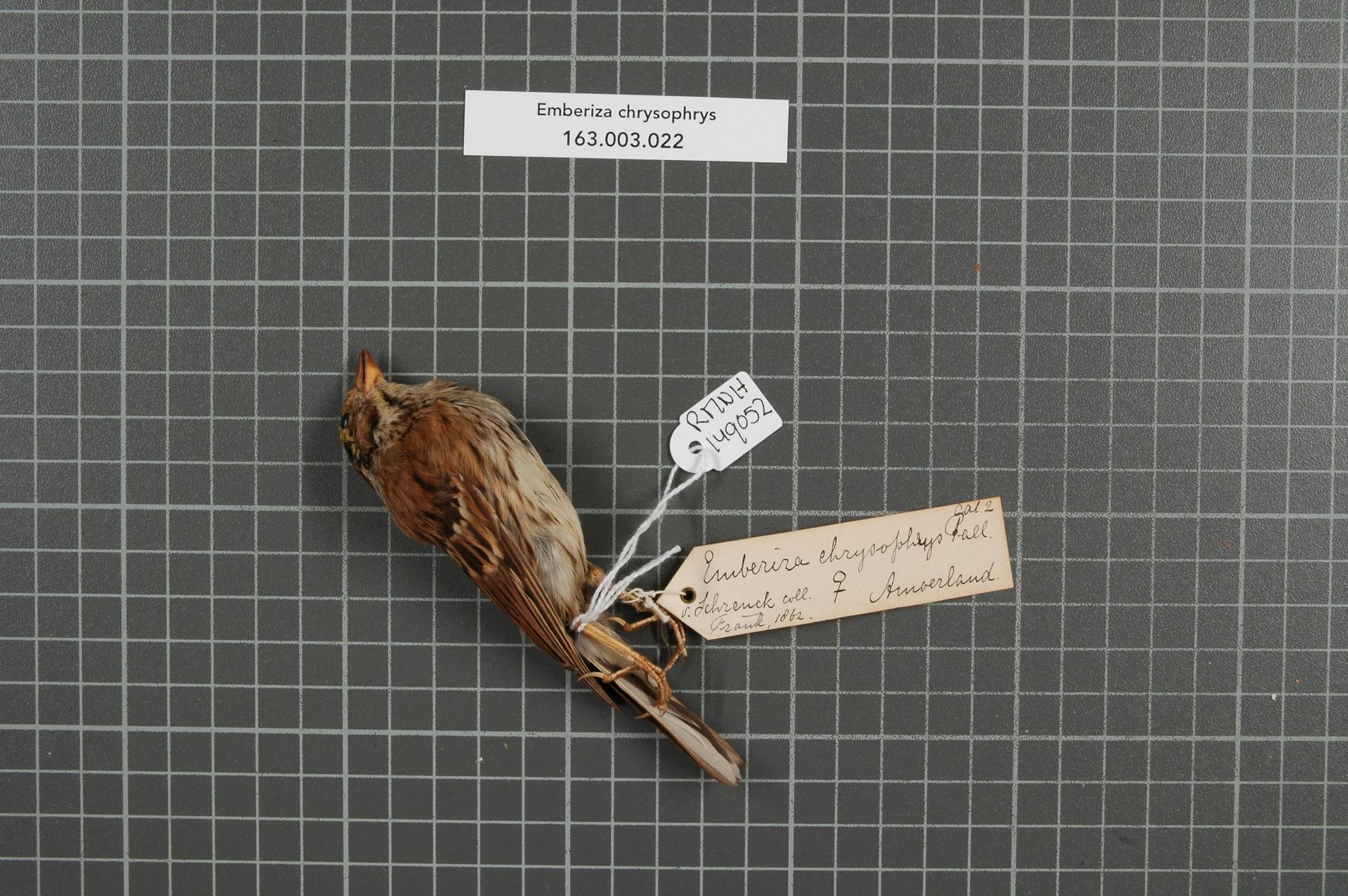 Emberiza chrysophrys Pallas, 1776